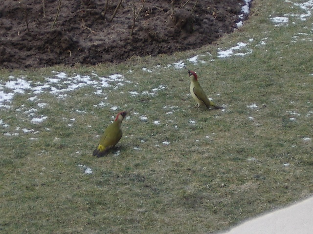 Picus viridis (Green Woodpecker), 2 of them, in Nuremberg, 2005-03-14 in the morning.